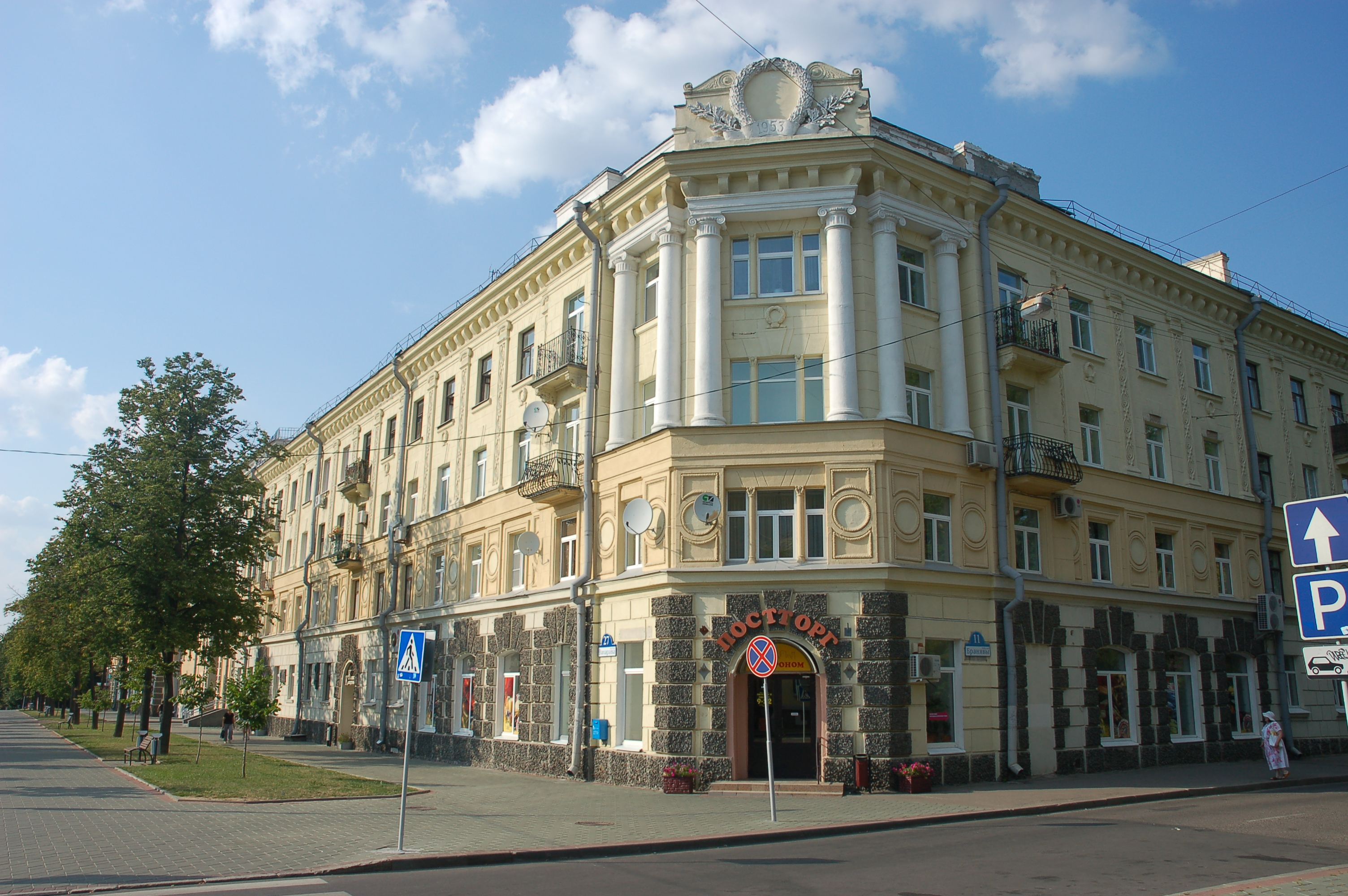 Minsk, 27 Zakharava Street